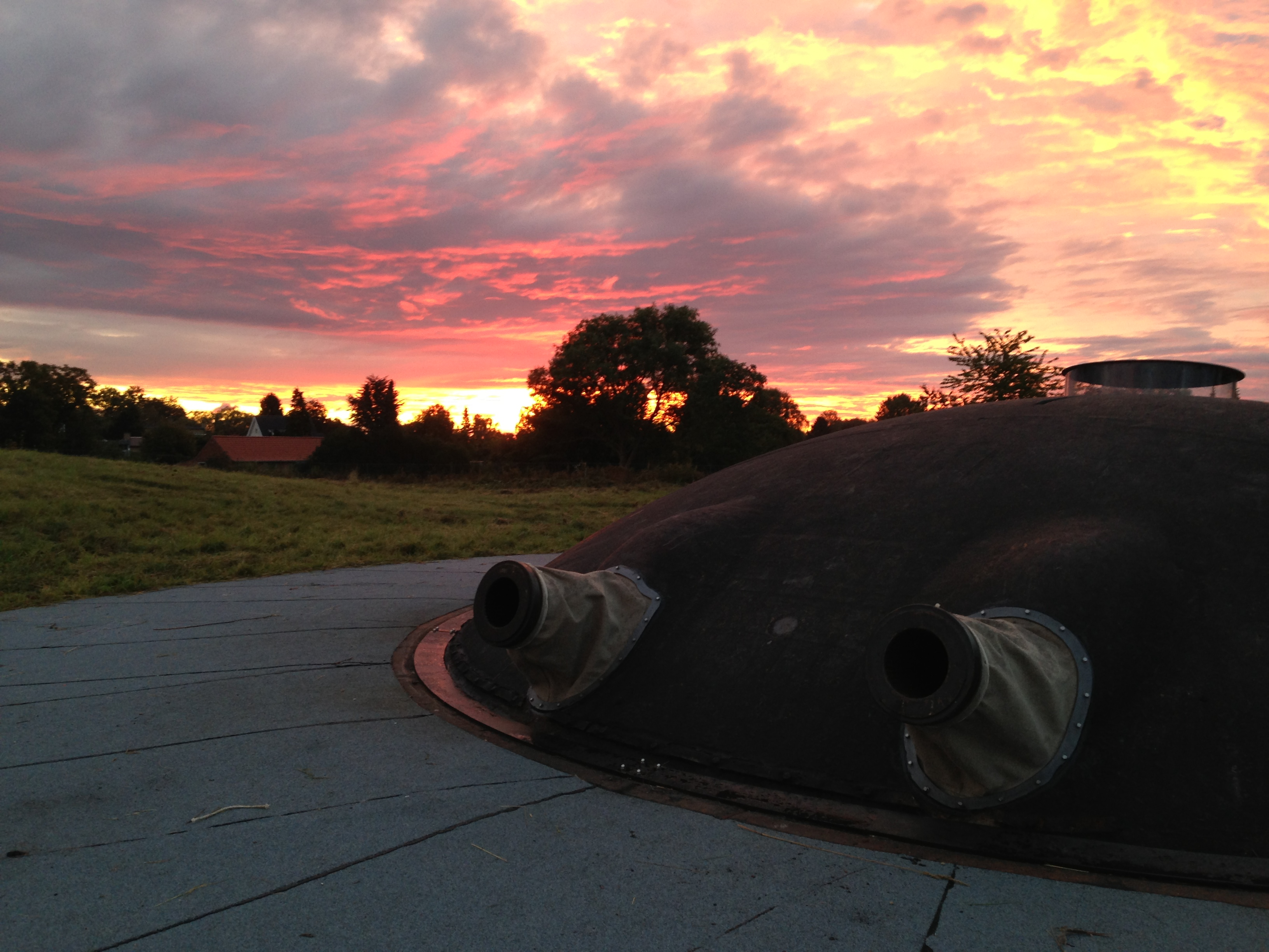 Two-canon on Garderhøj Fort at sunrise.